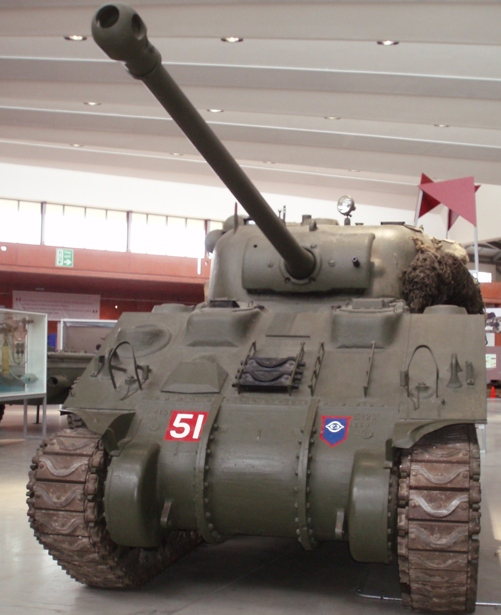 Bovington Tank Museum 124 Sherman Firefly